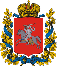 Coat of arms Vitebsk Governorate, Russian Empire